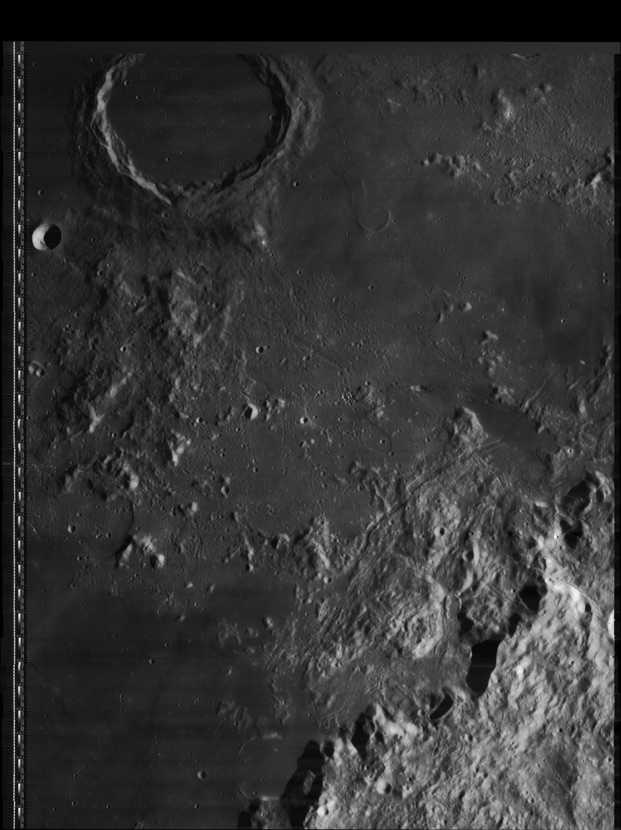 Montes Archimedes on the Moon